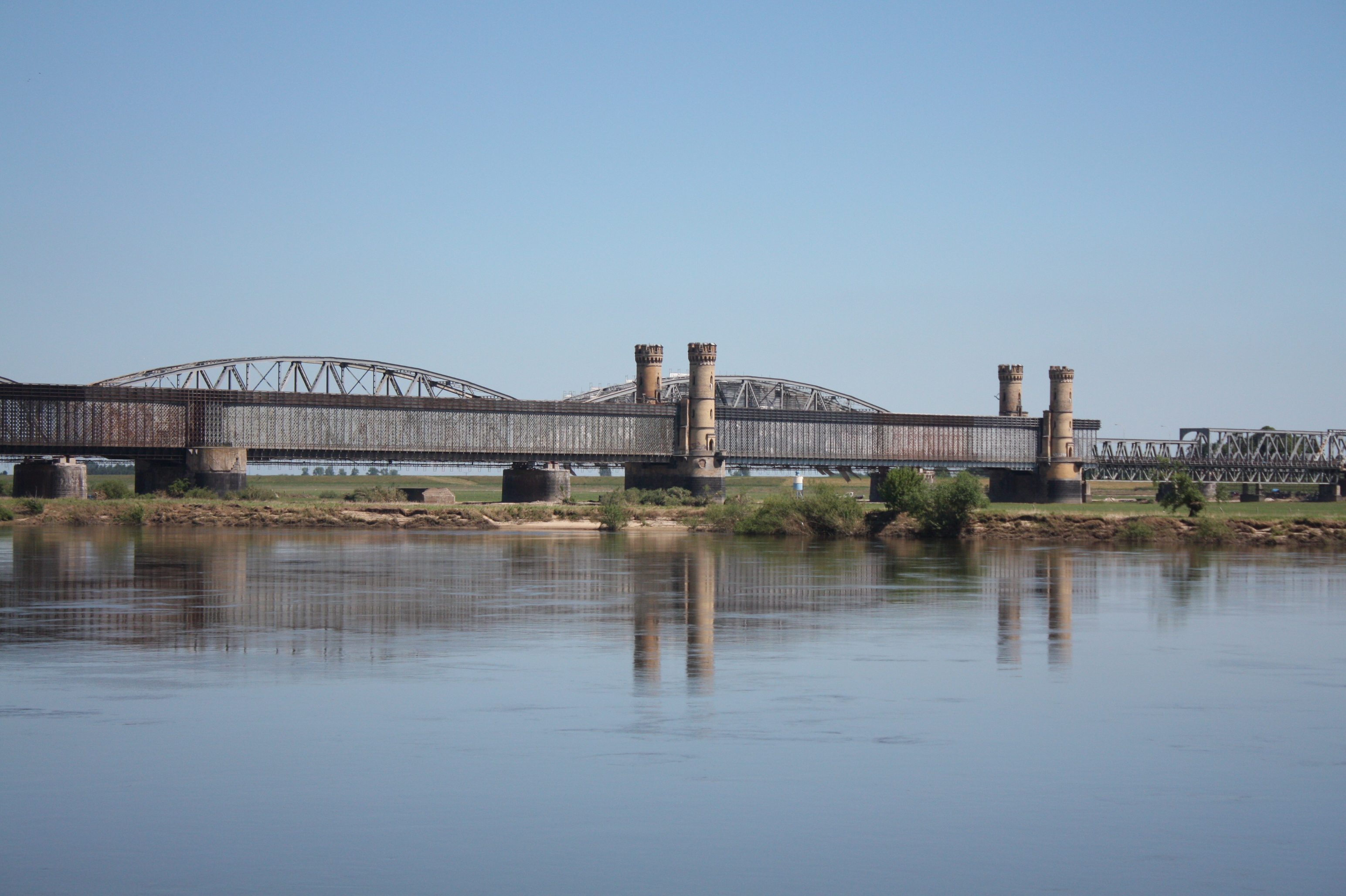 Tczew, Old brigde